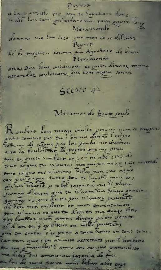 Picture of a manuscript page by the Occitan writer Francés de Corteta